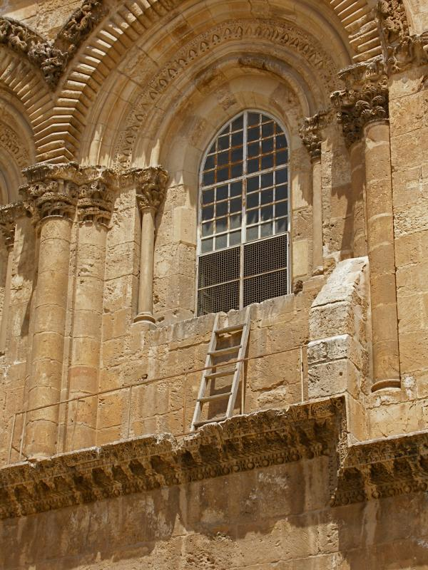 Immovable ladder on ledge over entrance to Church of the Holy Sepulchre